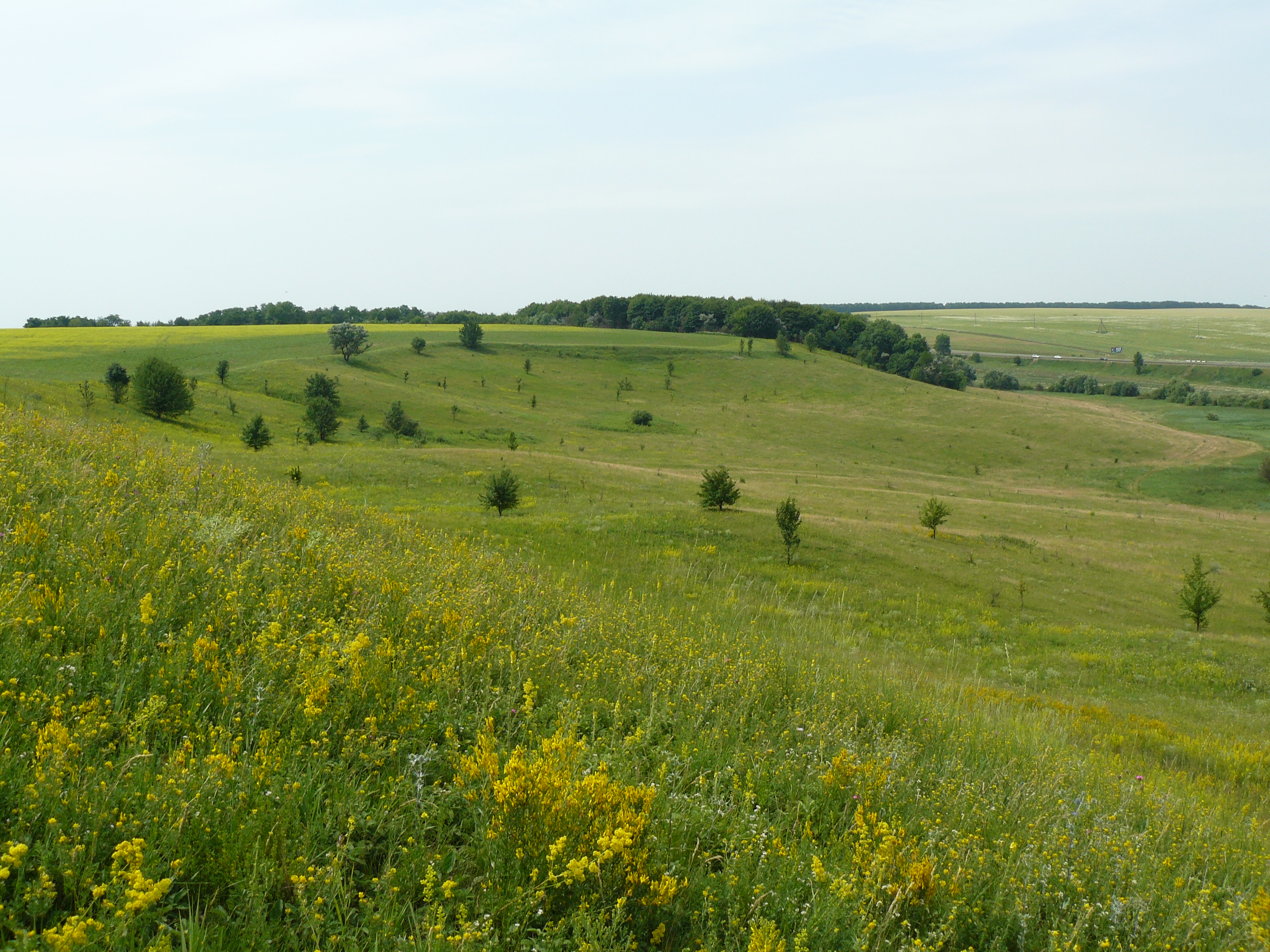 Snizhky Dilyanka forest. Forest-steppe vegetation on the slope of the Tikych valley. In the background (center): upwelling of groundwater on the slope. In the background: artificial plantations.